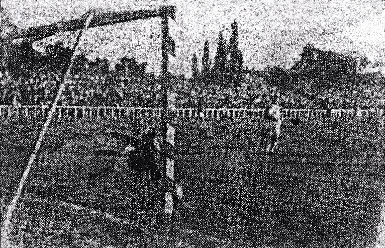 Dorogian stadion is full